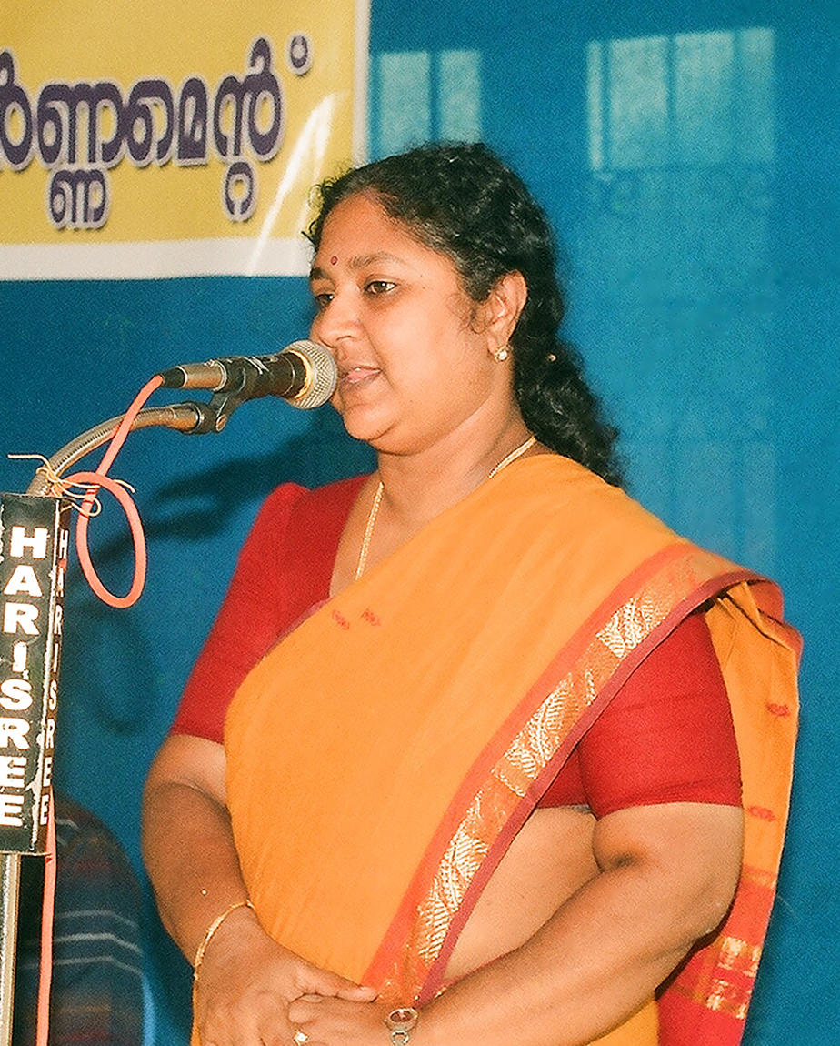 R. Bindu inaugurates Pooja chess tournament of Red Star Club, Sankarayya Road